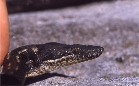 Round Island Boa (Casarea dussumieri), north of Mauritius